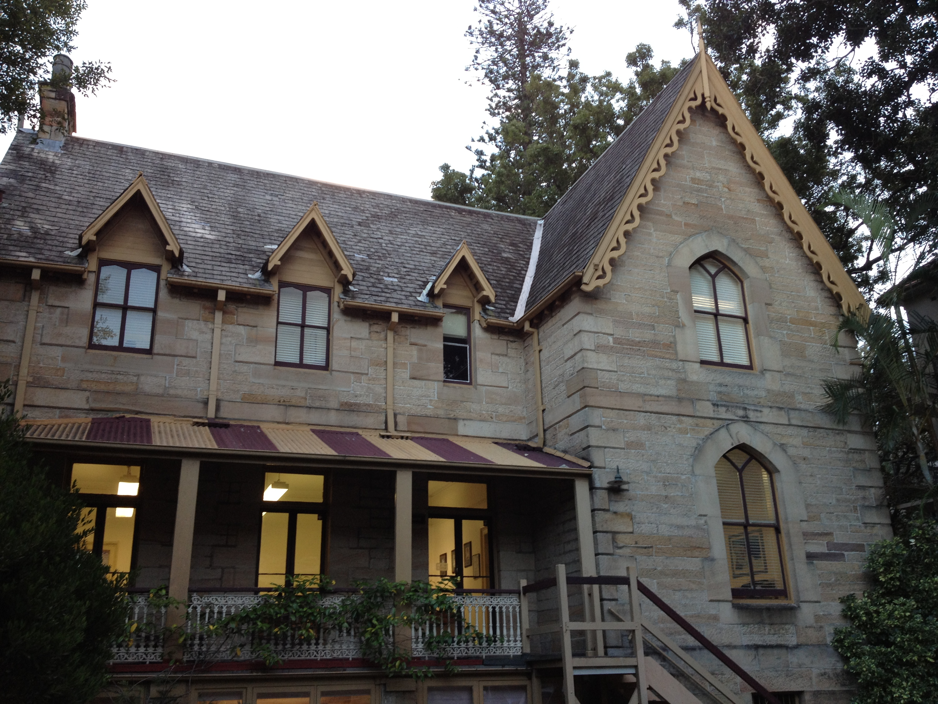 Kenilworth House within the grounds of St Luke's Hospital Potts Point, Sydney, Australia.